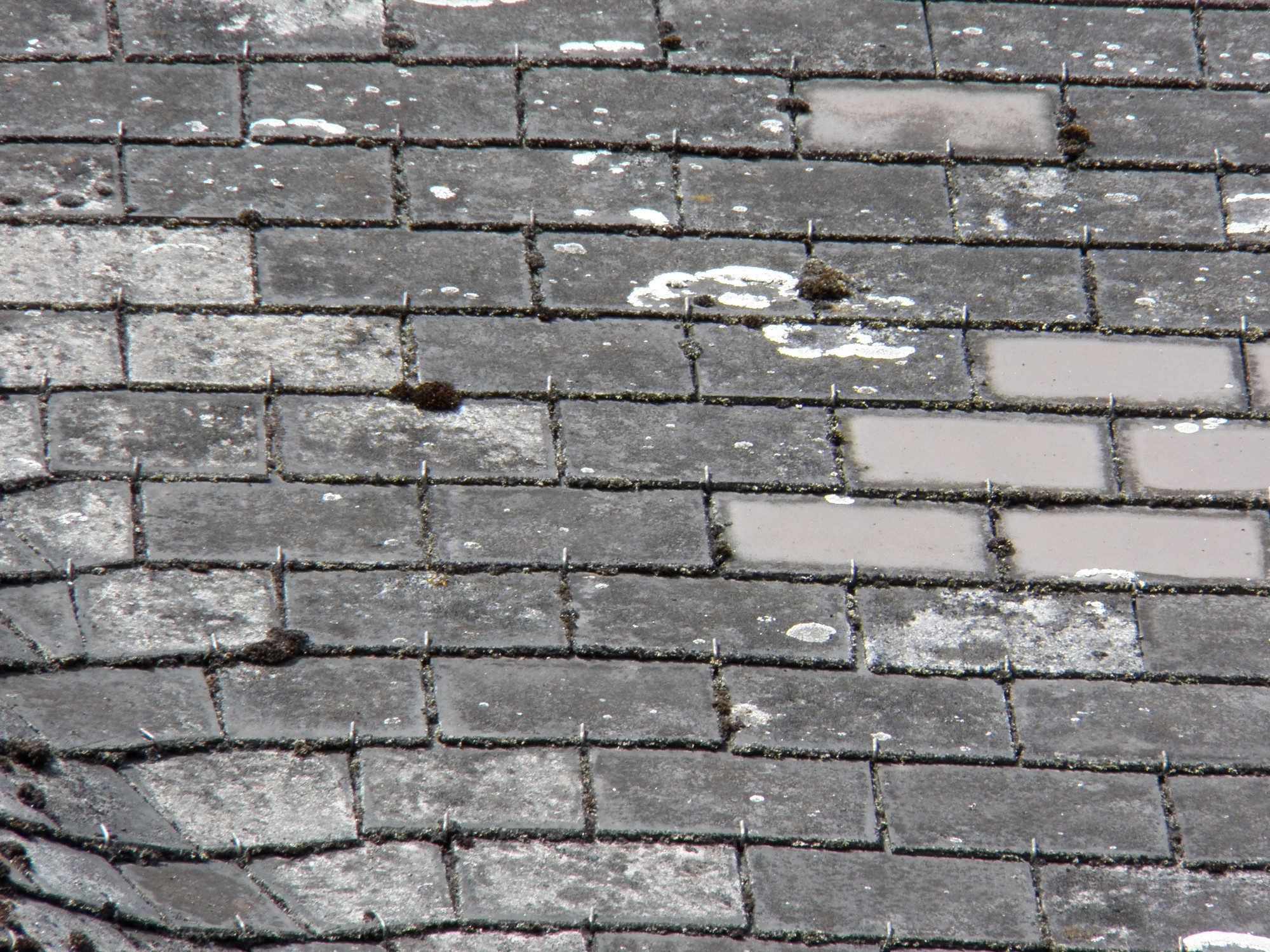 Old slate roof tiles containing asbestos, picture taken on 27-10-2012 from a roof at Onze Lieve Vrouwestraat Zegge, the Netherlands. Picture taken from the public road.